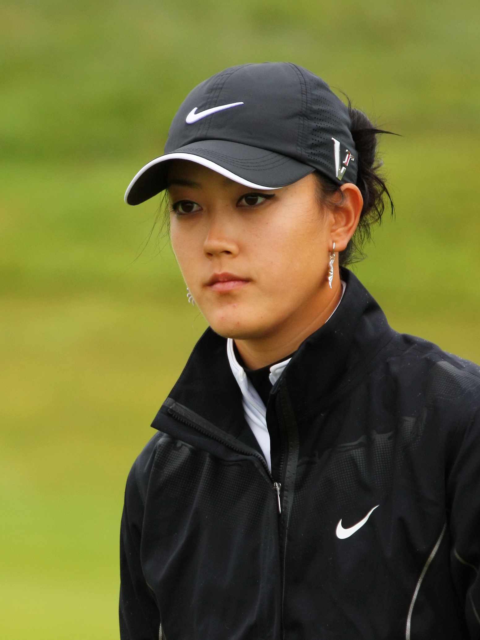 SOUTHPORT, UNITED KINGDOM – JULY 27: Michelle Wie of USA on the 8th green during pro-am round before 2010 Ricoh Women's British Open held at Royal Birkdale on July 27, 2010, in Southport, England. (Photo by Wojciech Migda)